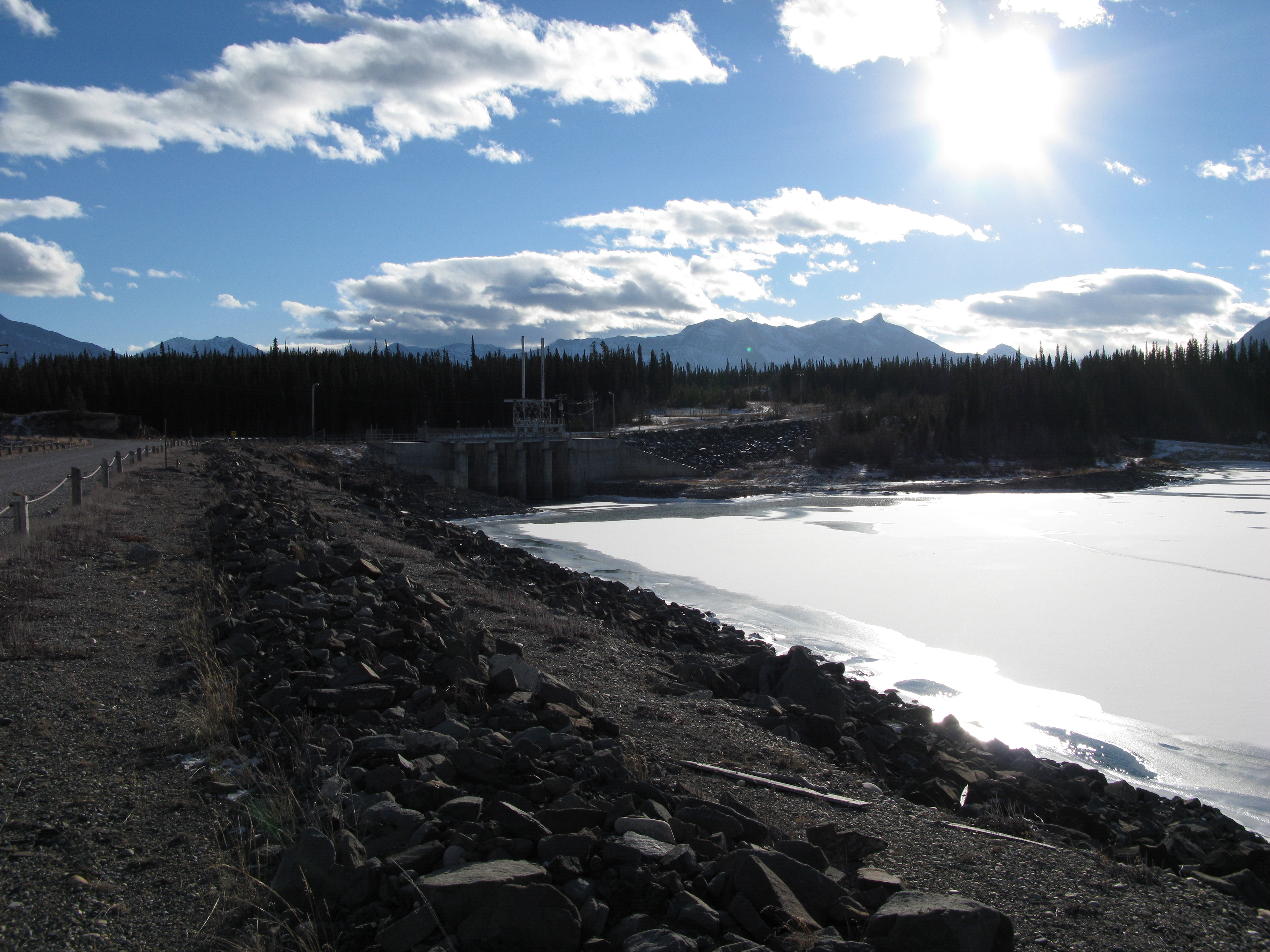 BighornDam